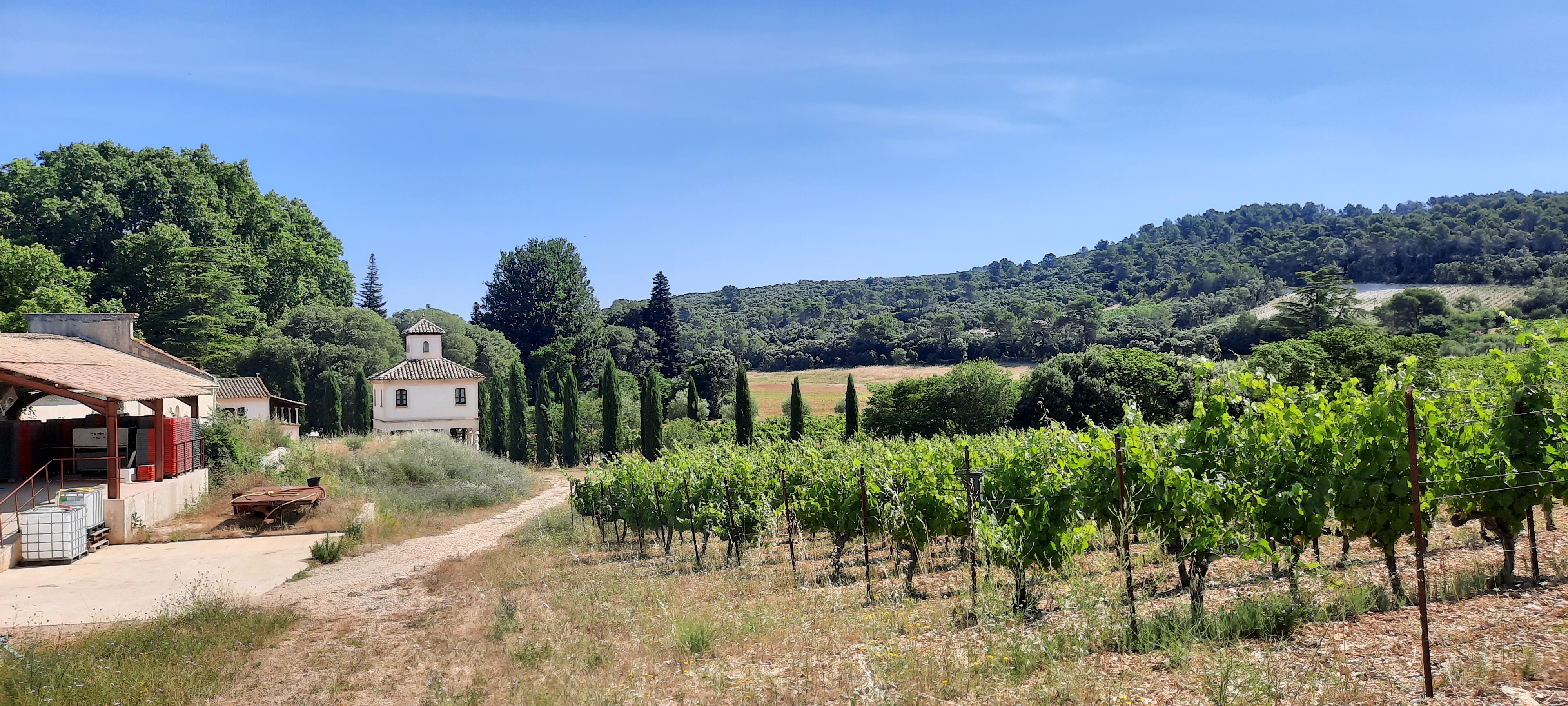 Vignoble de Château Capion